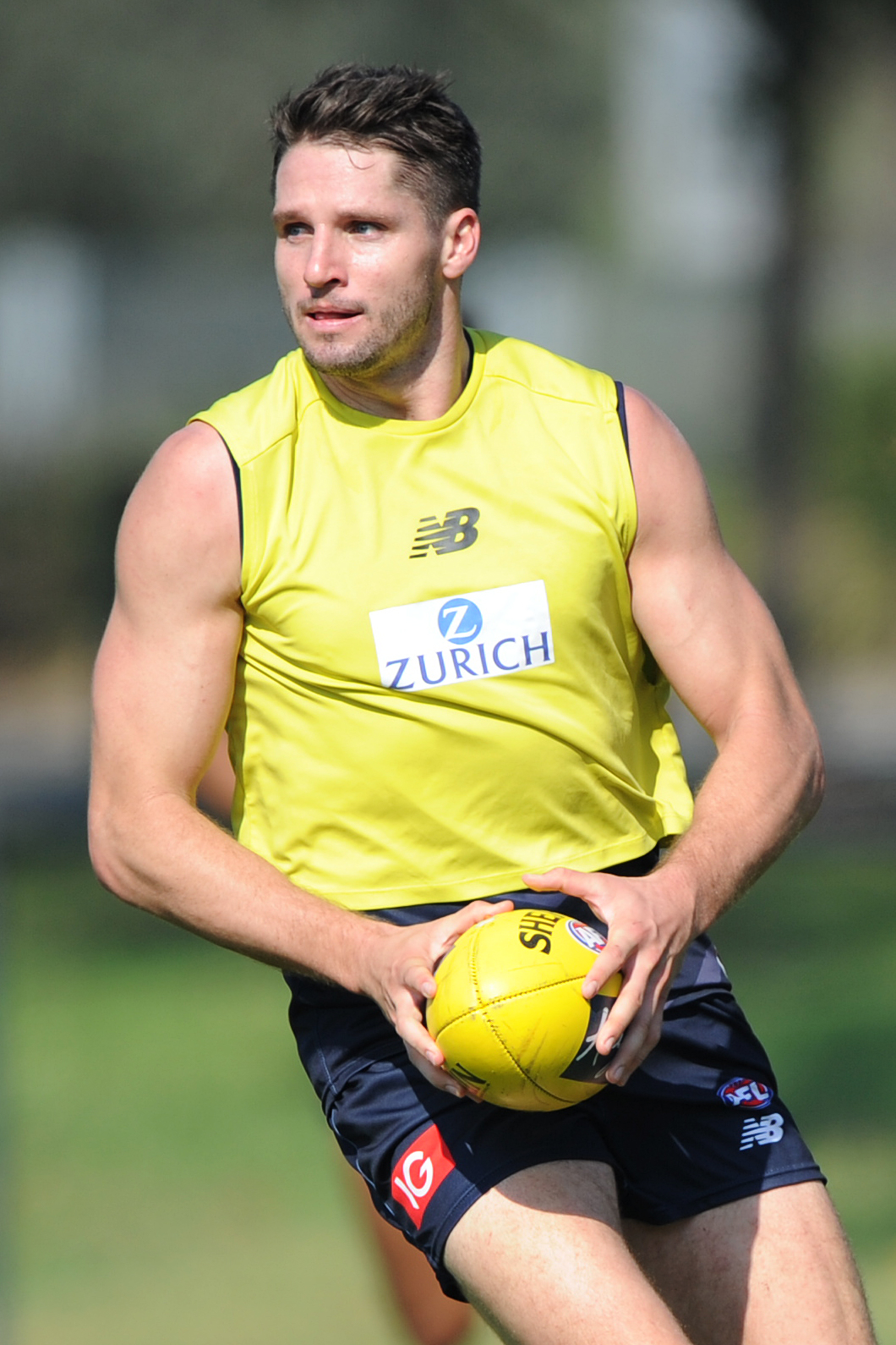 Jesse Hogan during Melbourne training on 21 April 2018 at Gosch's Paddock in Melbourne, Victoria.